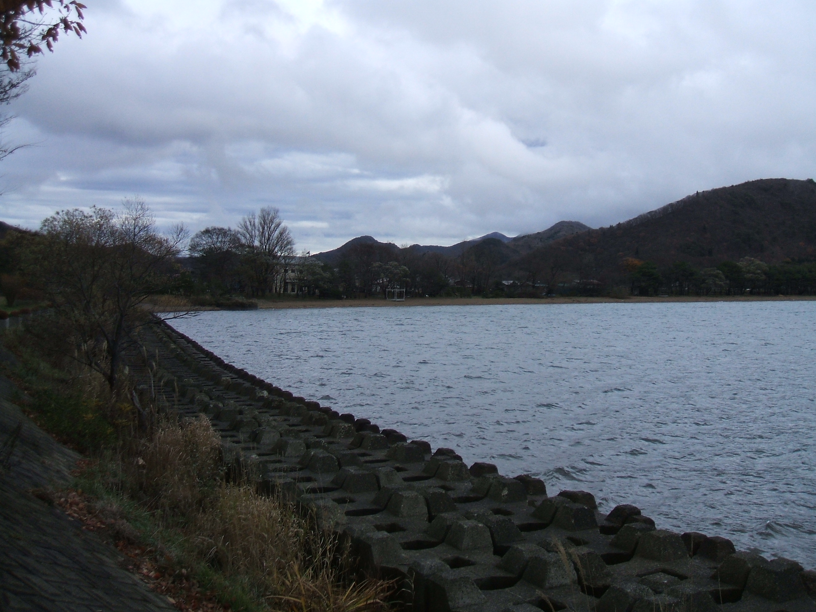 Jokohama. At Jouko Inawashiro, Fukushima.